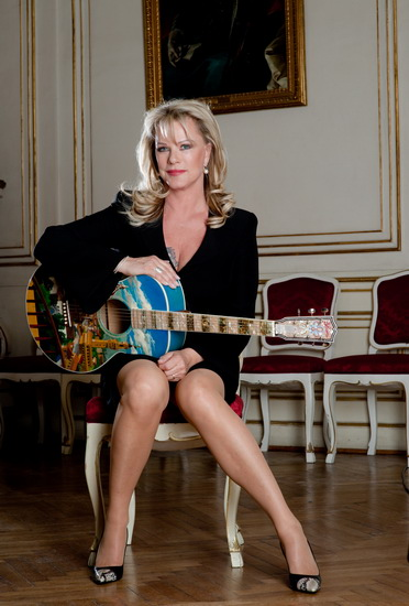 Lisa Fitz with guitar